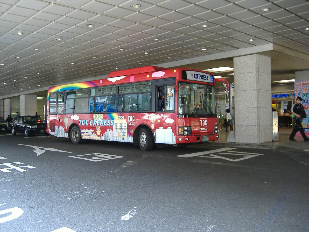 TOC-Building shuttlebus (Tokyo, Japan)